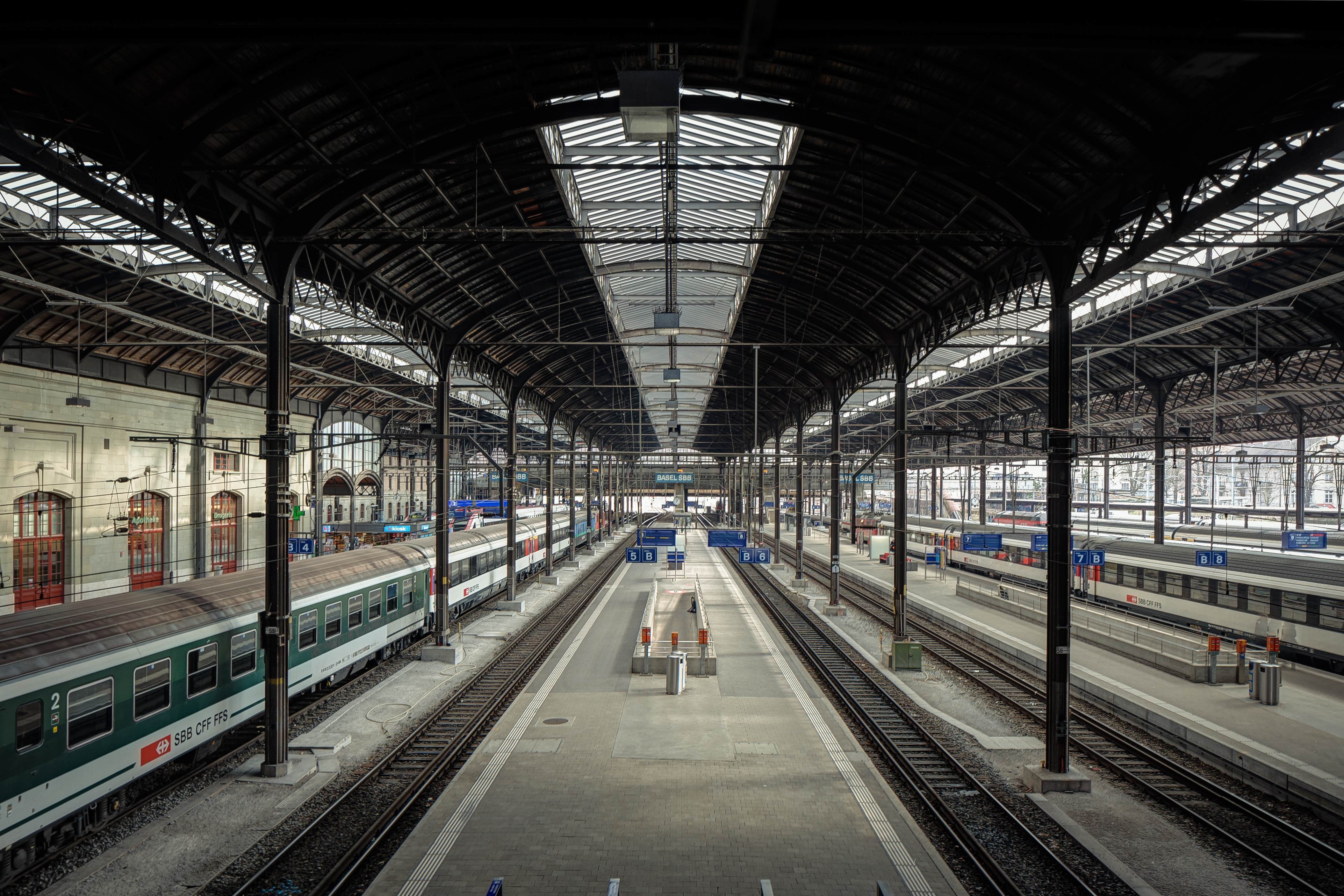 Train shed of the Basel central station (Basel SBB), Basel, Switzerland.